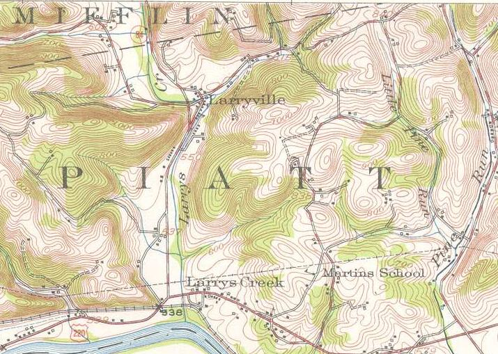 A United States Geological Survey Topographic Quadrangle marking the southernmost stretch of Pennsylvania Route 84 (now Pennsylvania Route 287) from Larrysville to Larrys Creek in 1953.